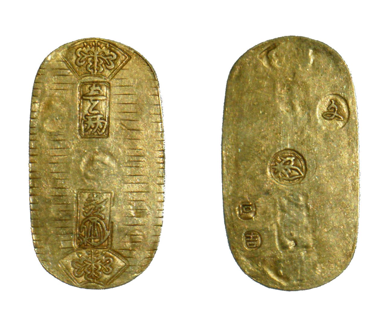 Shinbunji(Bunsei)-koban(Japanese traditional gold coin)